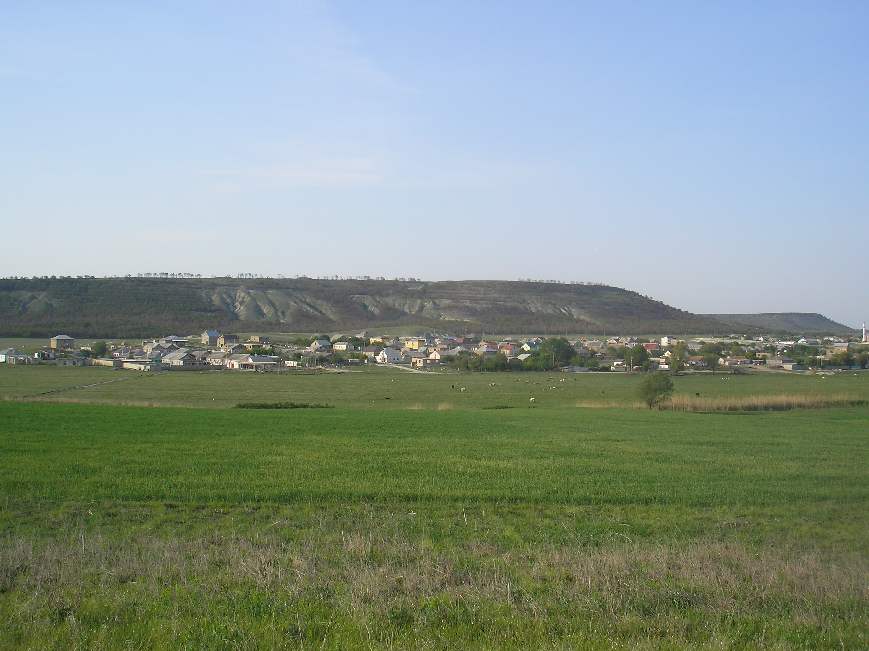 Village Trehprudnoe, Simferopol district, Crimea